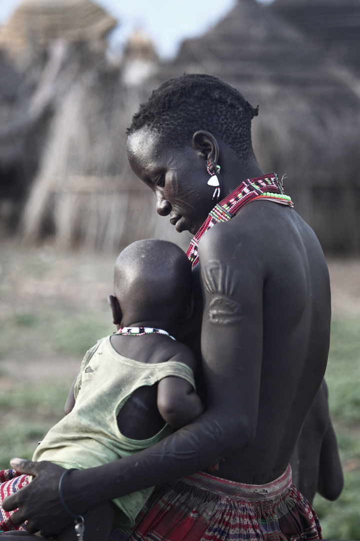 Toposa mother and child in South Sudan